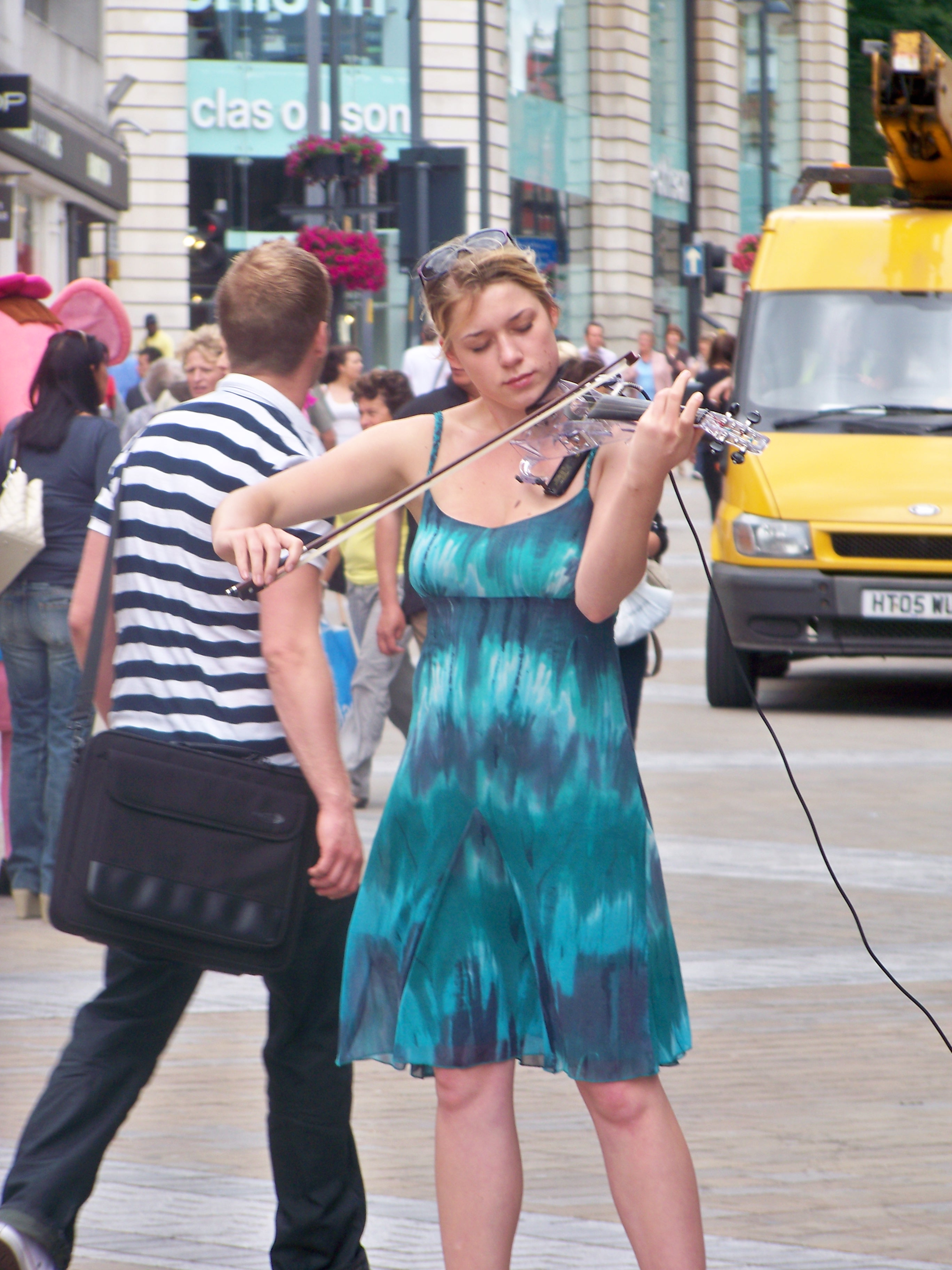 A violinist busking on Briggate in Leeds, West Yorkshire. Taken on the afternoon of Thursday the 24th of June 2010.